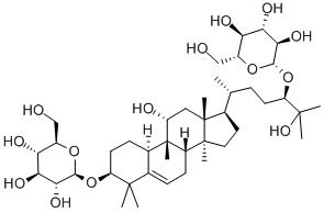 Mogroside II E